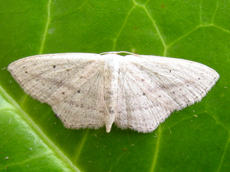 Scopula emutaria. Location: Lamswaarde e.o., the Netherlands